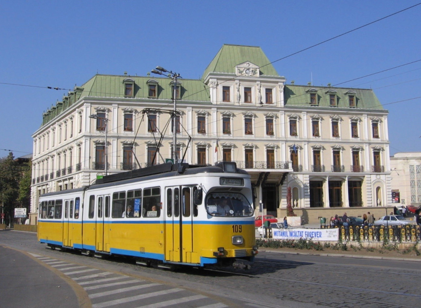 Iasi tram 109 eastbound on route 7 at Piața Unirii (Union Square) in 2005, with the 1882-built Grand Hotel Traian in the background. Tramcar 109 is ex-Darmstadt 32 built in 1962 by DWM (Deutsche Waggon- und Maschinenfabriken GmbH, of Berlin), type ST7, and acquired by Iasi in 1998.